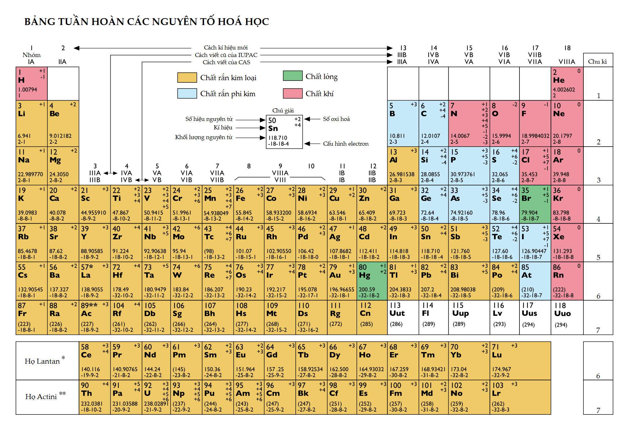 Periodic Table of the Elements (in Vietnamese)